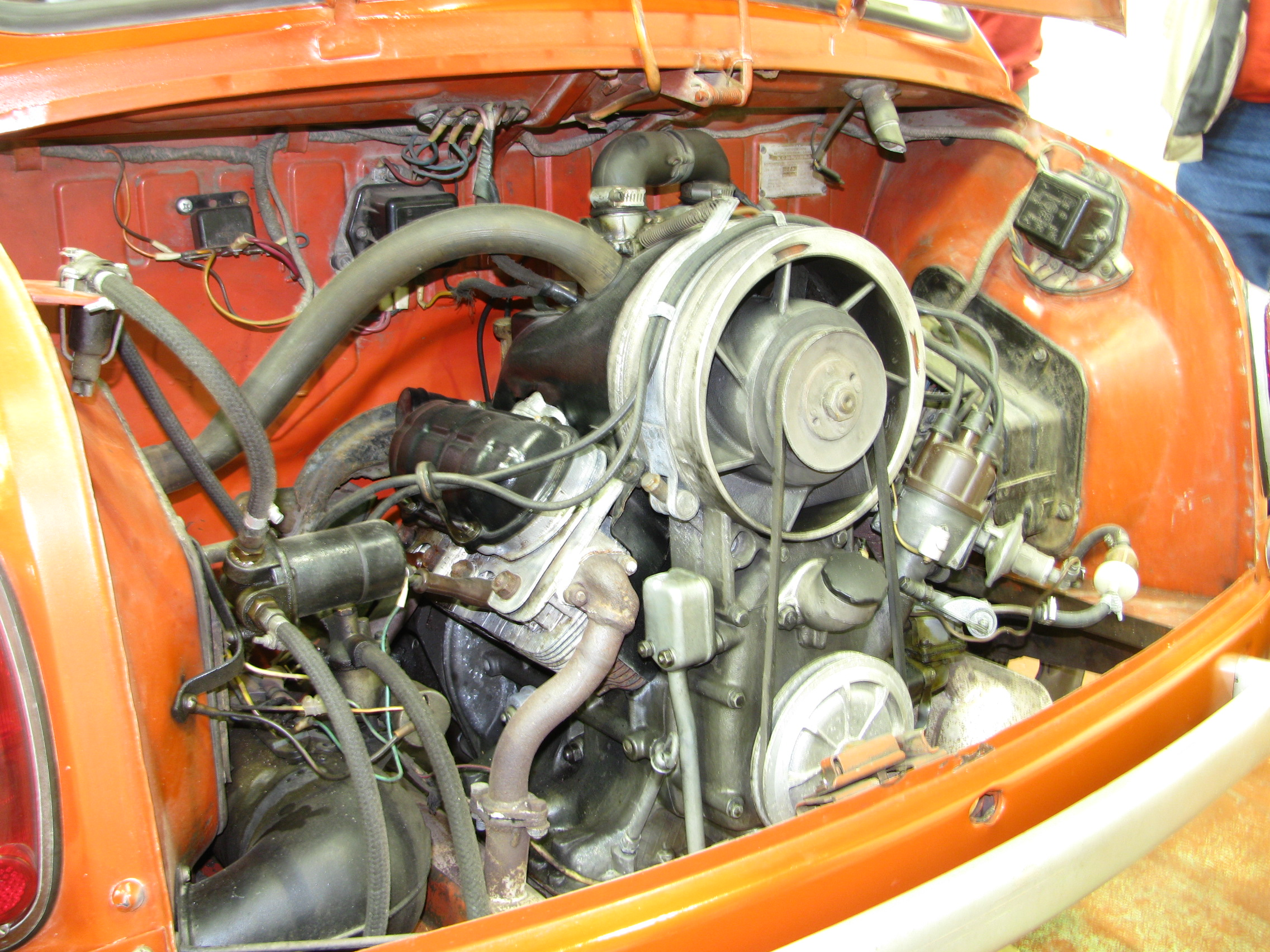 ZAZ-965AE engine: aircooled V4.